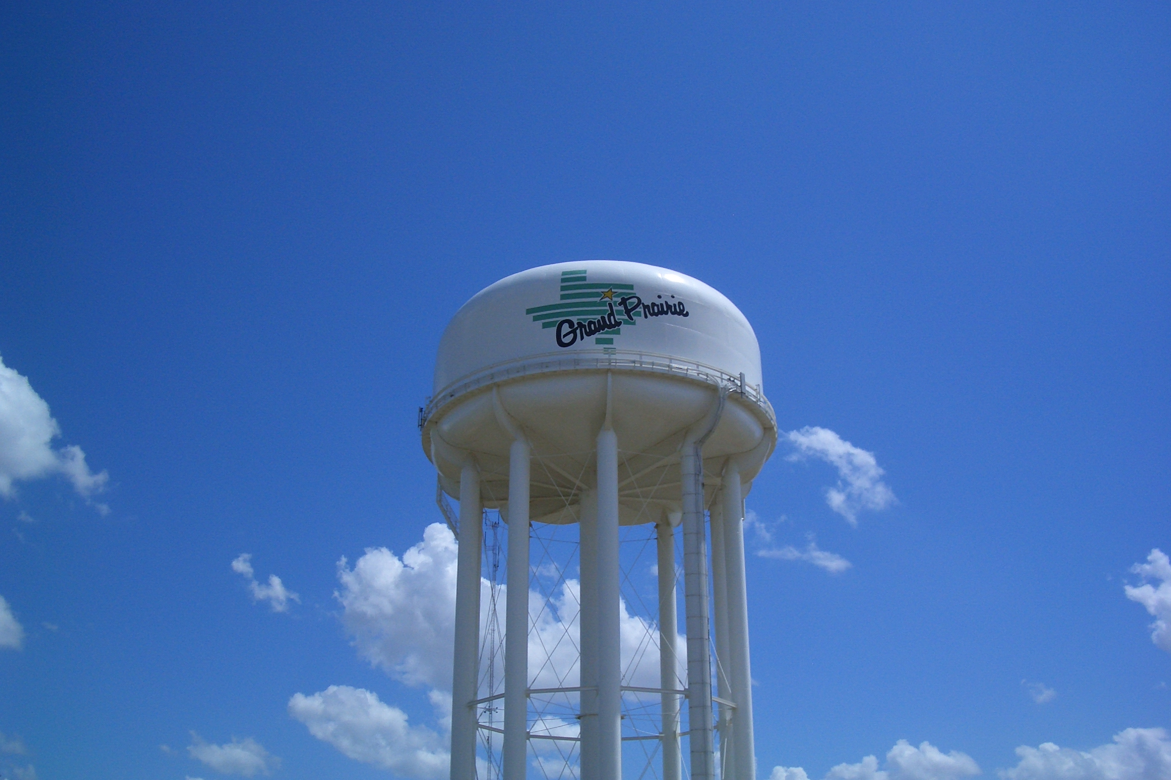 A water tower neighboring the future State Highway 161 in Grand Prairie, Texas.